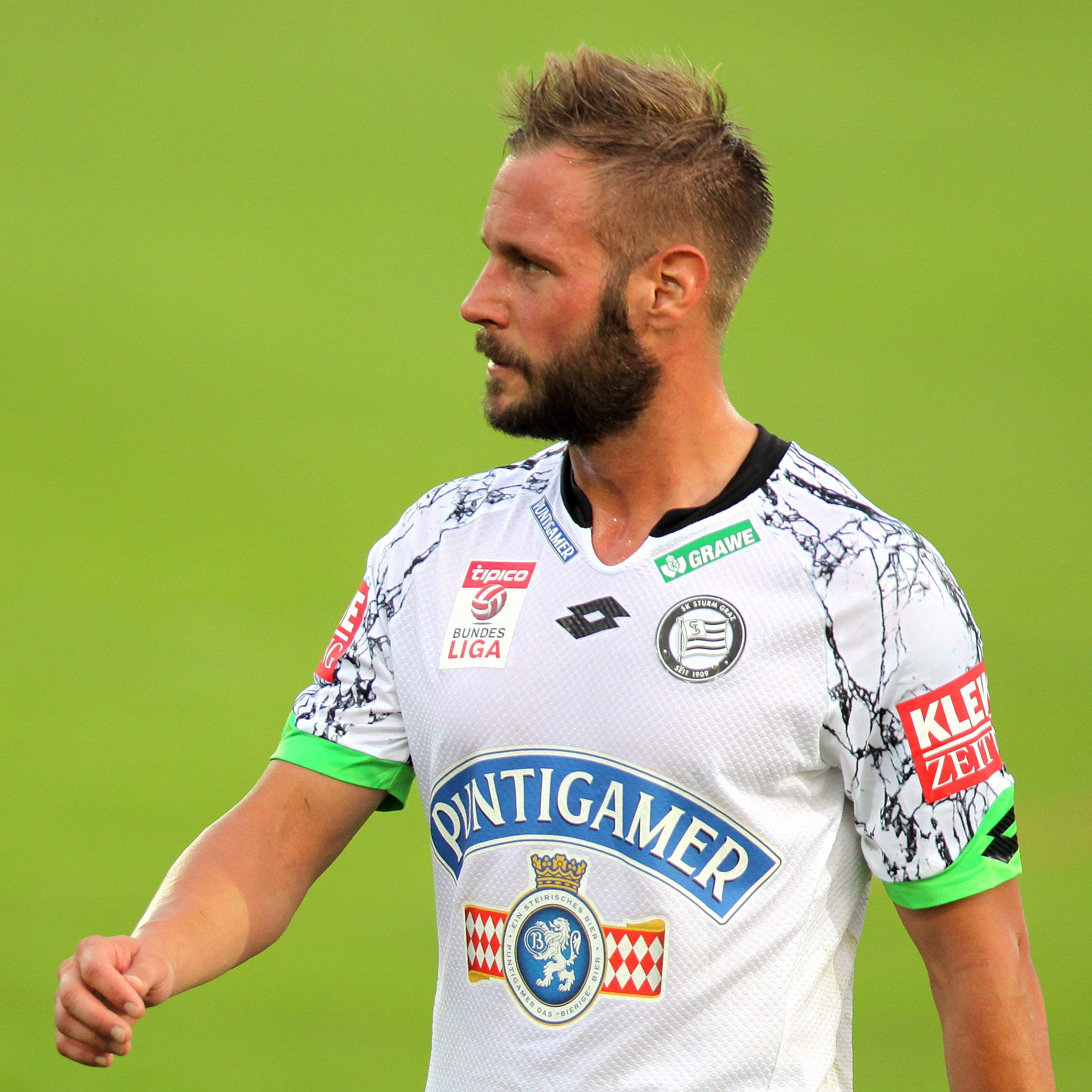 Match of the Austrian Football Bundesliga – SV Mattersburg (green shirts) vs. SK Sturm Graz (white shirts) on 2015-09-13 in Pappelstadion, Mattersburg – The photo shows Martin Ehrenreich